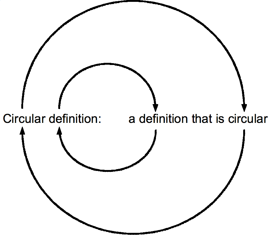 Circular definition of circular definition: circular definition defined as an example of circular definition.